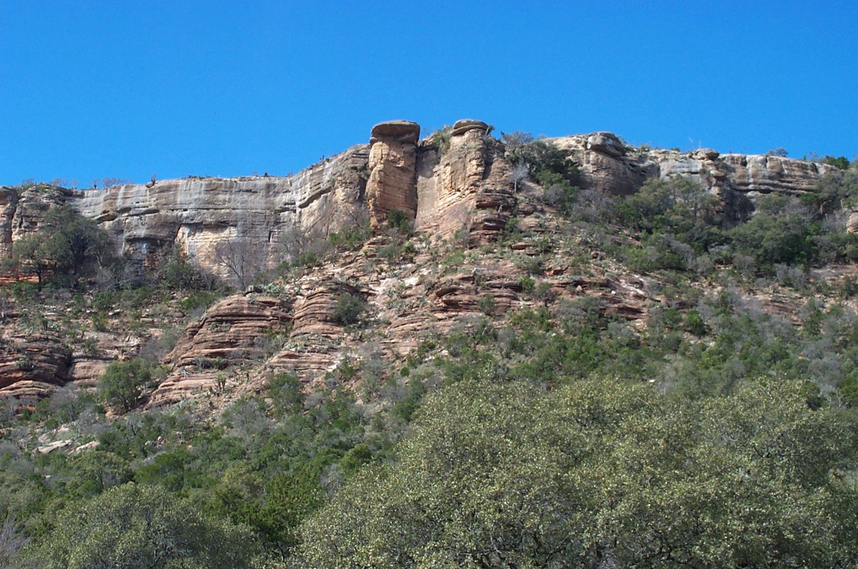 Packsaddle Mountain Picture by Clay DuPree - 2002